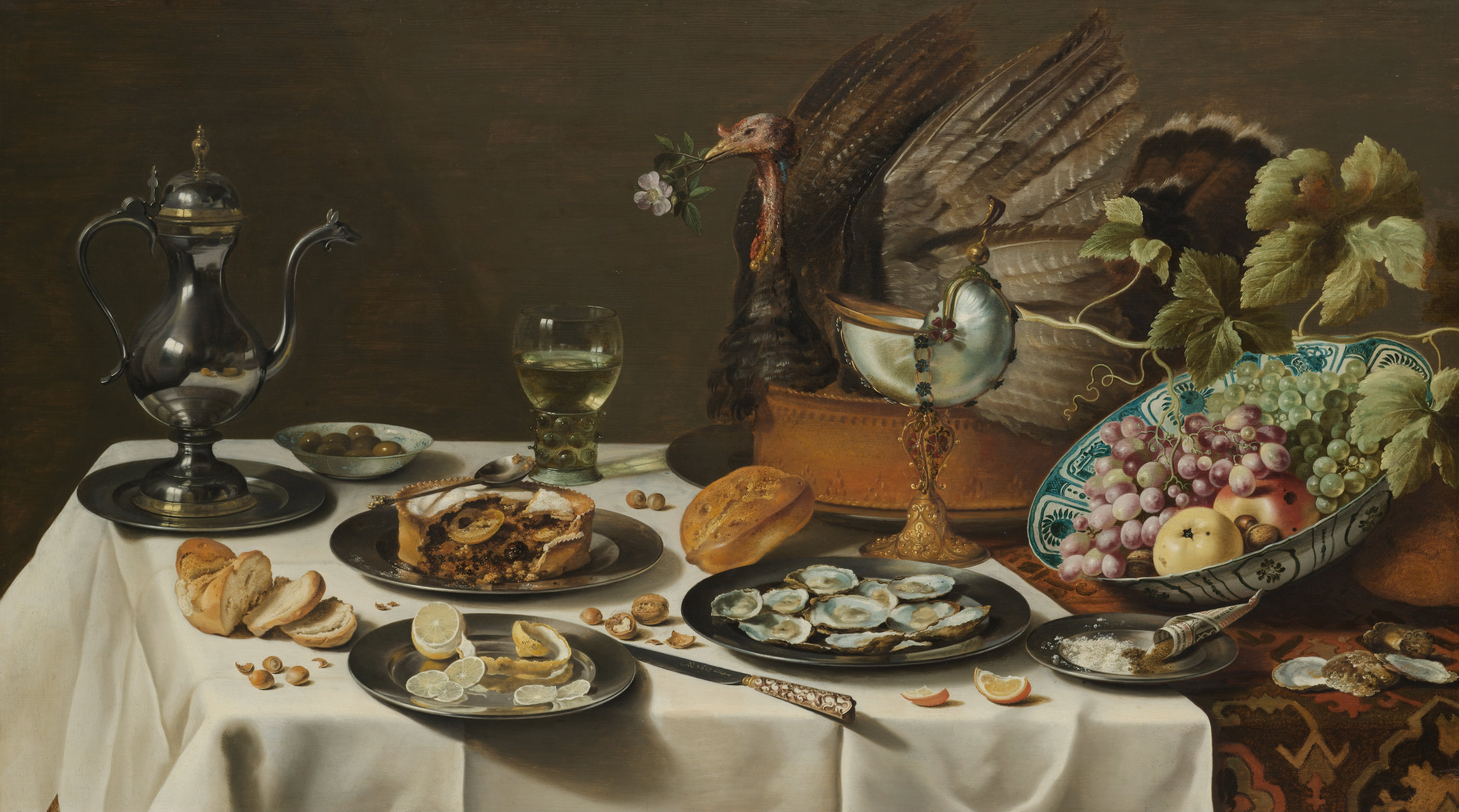 Still life with a turkey pie. Table laid with a white damast table cloth, dressed with pewter plates containing a pie, oysters, a lemon, salt, pepper and olives (?). On the table also a pewter jug, a rummer, a knife, nuts, bread rolls, a Nautilus cup and a Wan Li bowl containing fruit. In the back stands a large pie on which a turkey is placed.